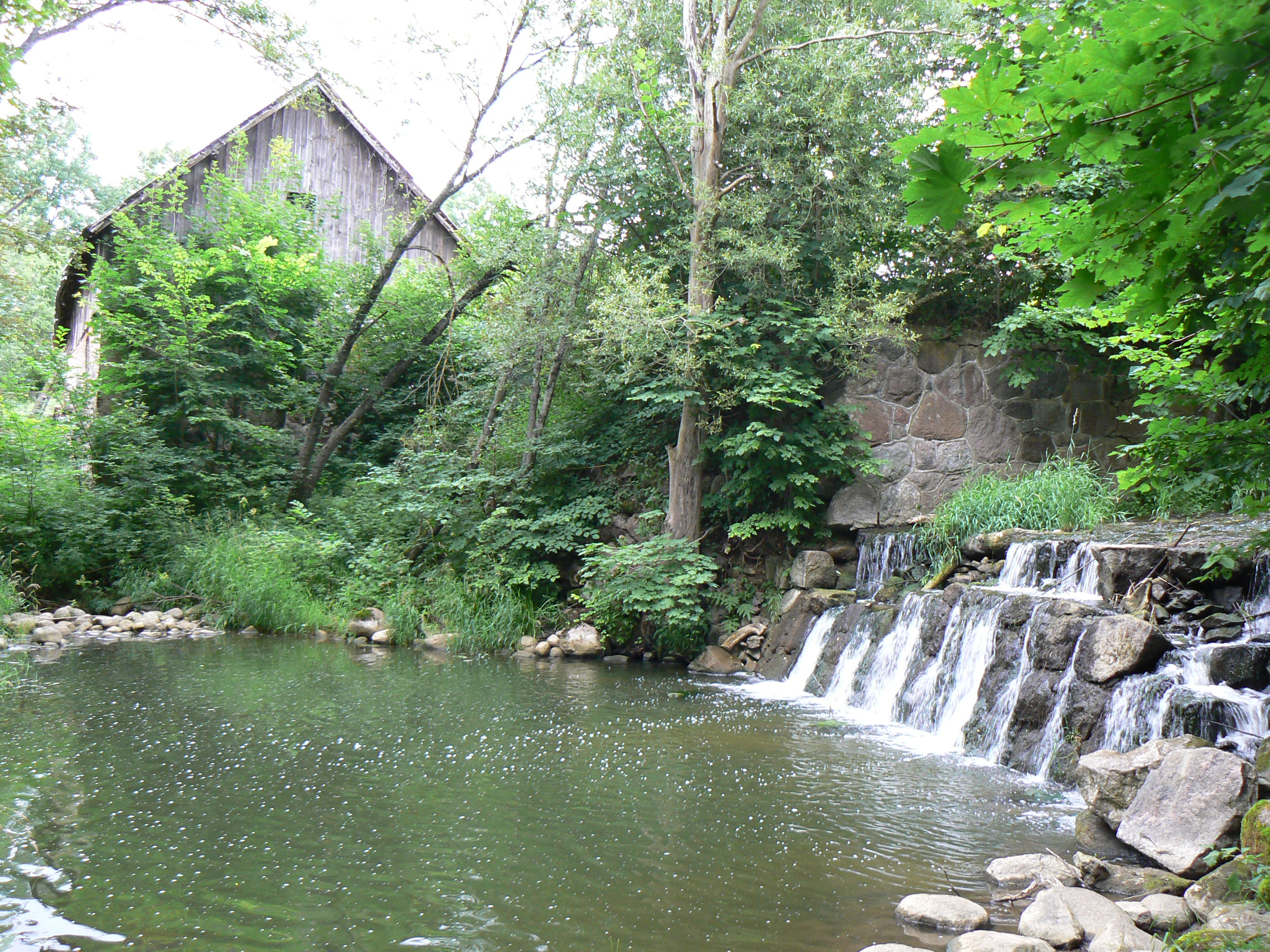 Skinija near watermill Maciuičiai